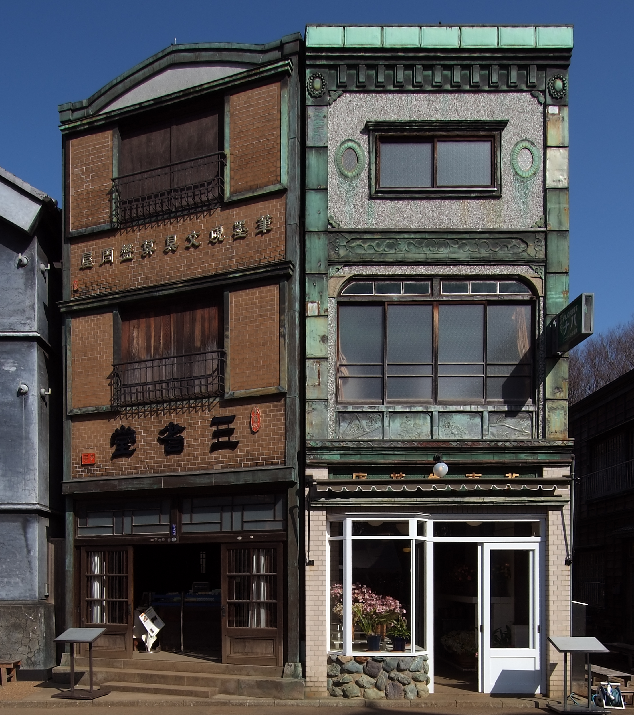 Takei Sanshodo (left) & Hanaichi Flower Shop (right), at Edo-Tokyo Open Air Architectural Museum.